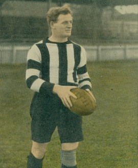 Photograph of George Anderson from 1911-1916